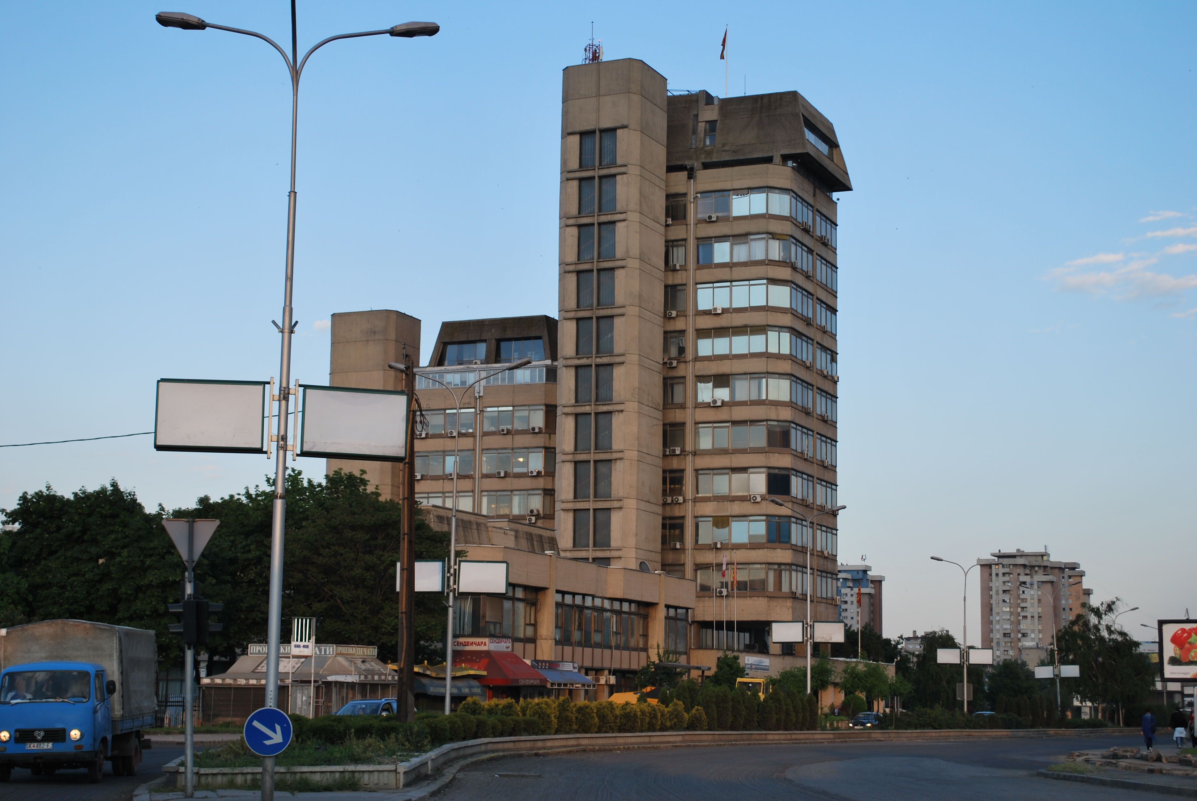 Skopje, Macedonia